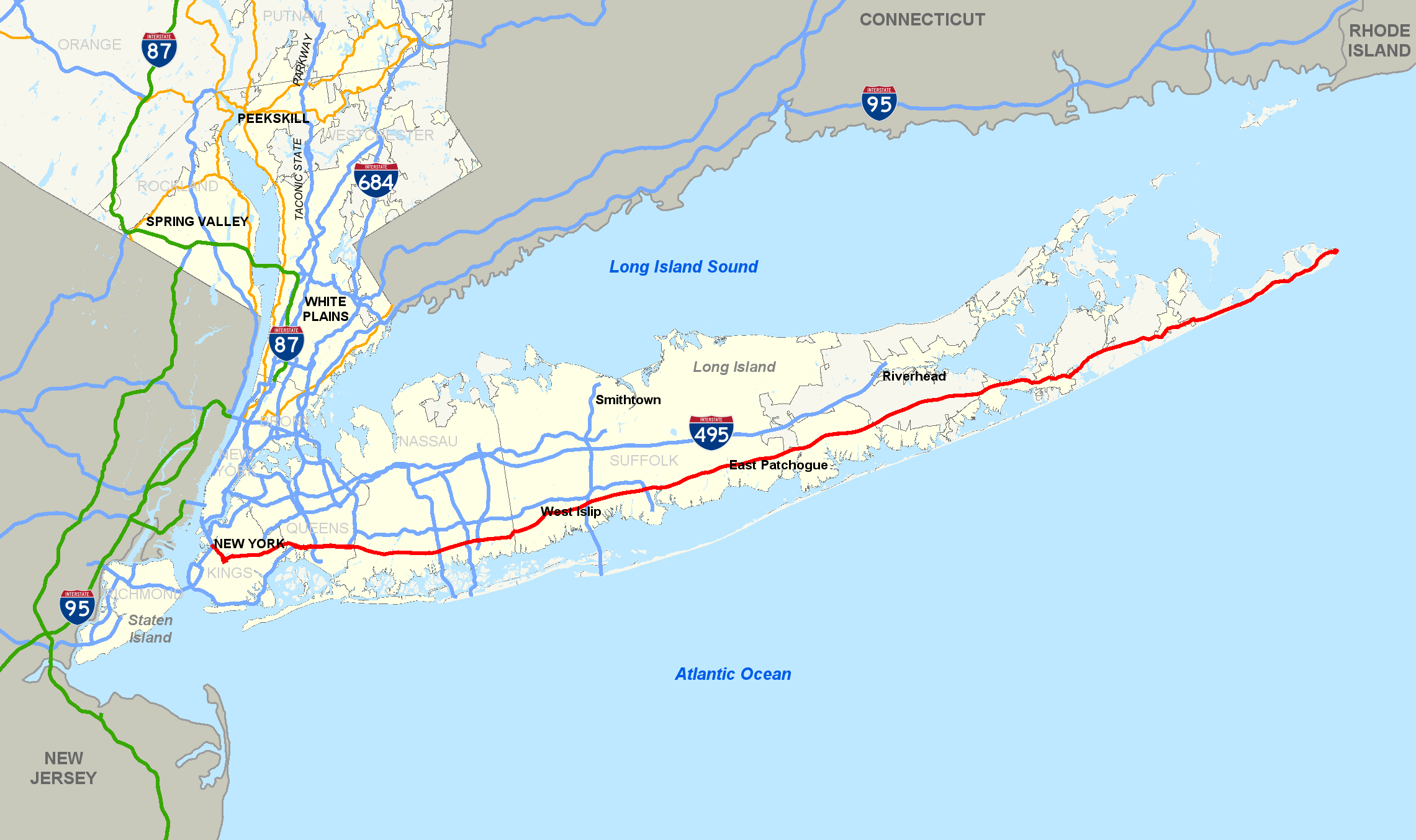 Map of New York State Route 27.